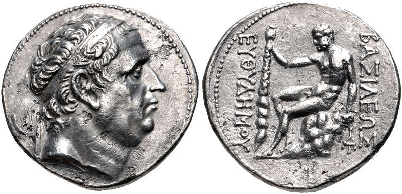 Euthydemos I Ai Khanoum